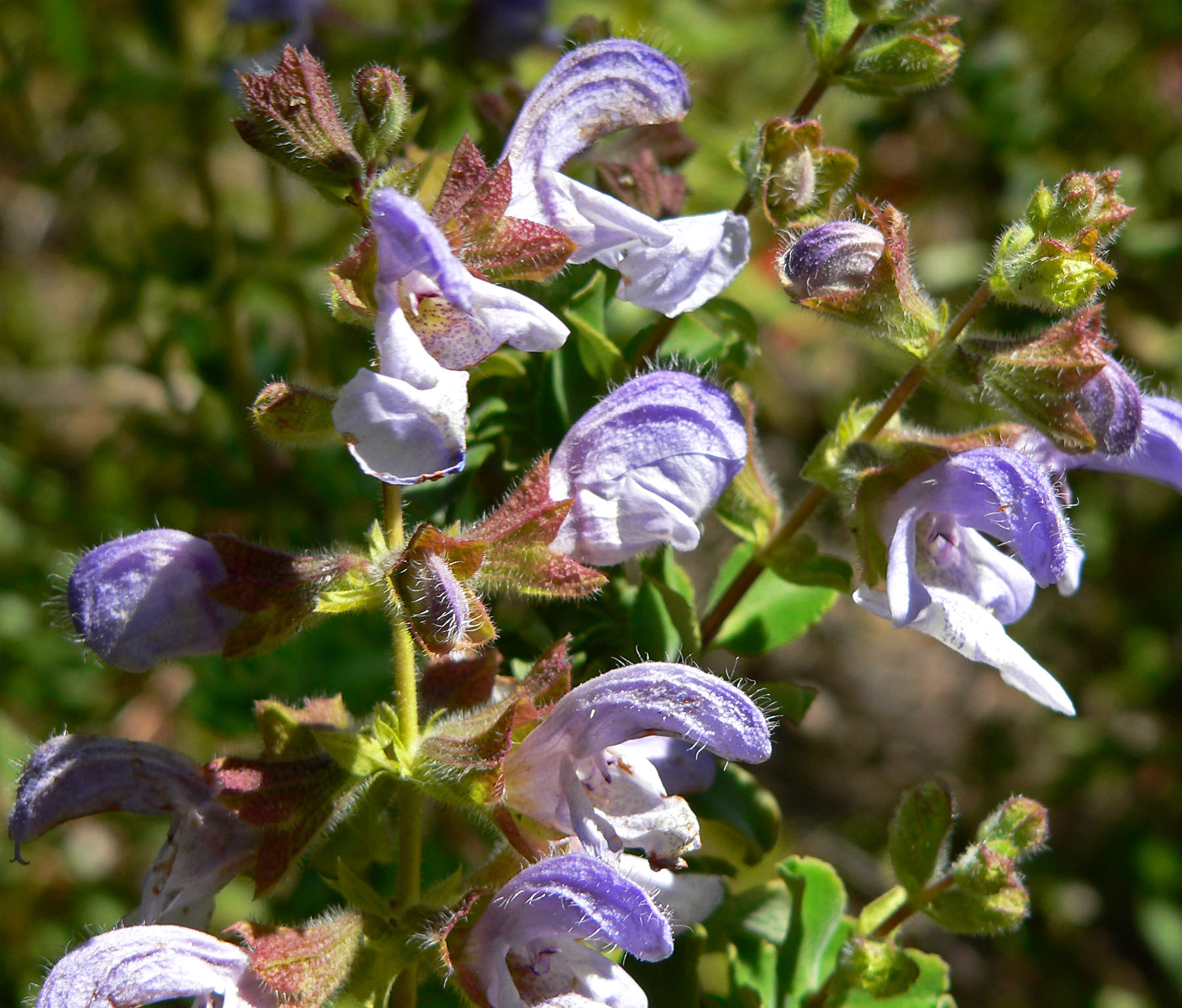 Salvia africana at the University of California Botanical Garden, Berkeley, California